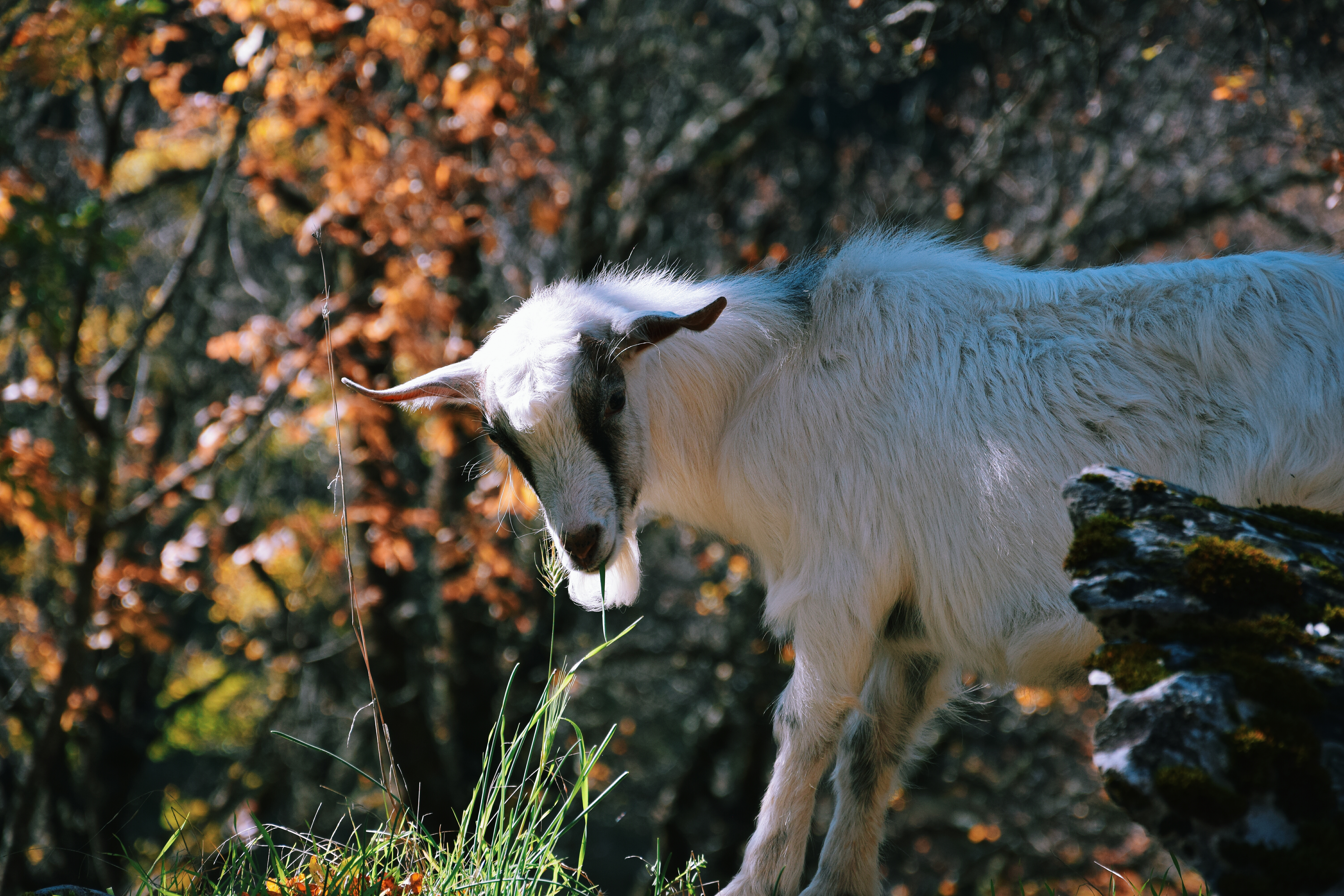 This is a photography of Natura 2000 protected area with ID GR2130001